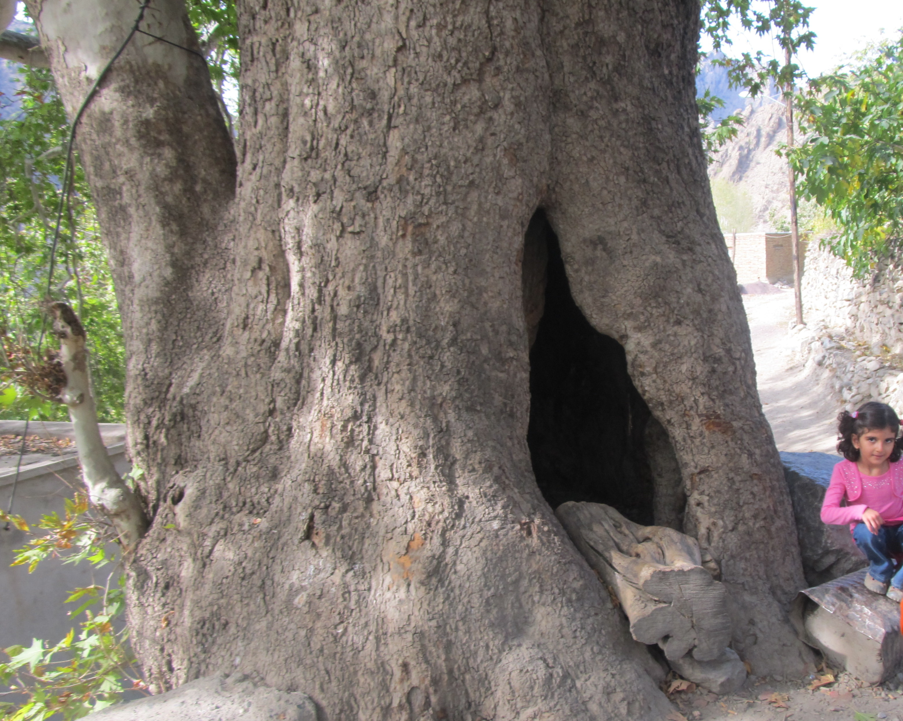 This photo of an ancient Buttonwood (plane) tree was taken in Kavanaq village of Arasbaran region by Farideh Leysi. The tree is the landmark of the village.